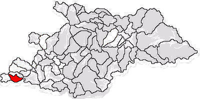 Map of Oarţa de Jos commune in Maramureş